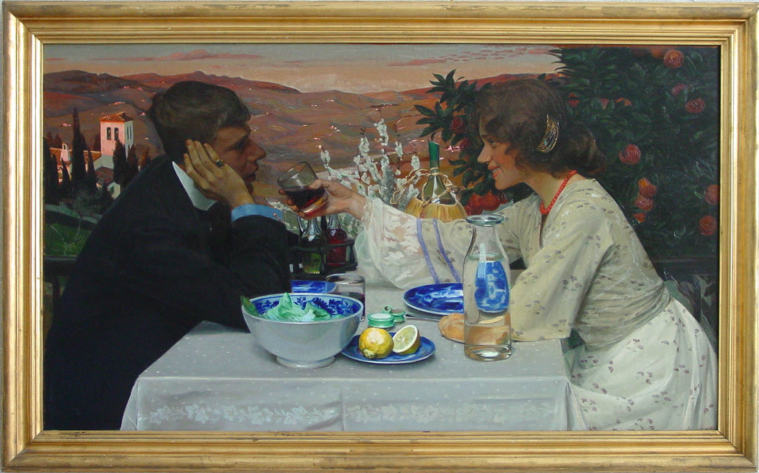 oil on canvasmedium QS:P186,Q296955;P186,Q4259259,P518,Q861259